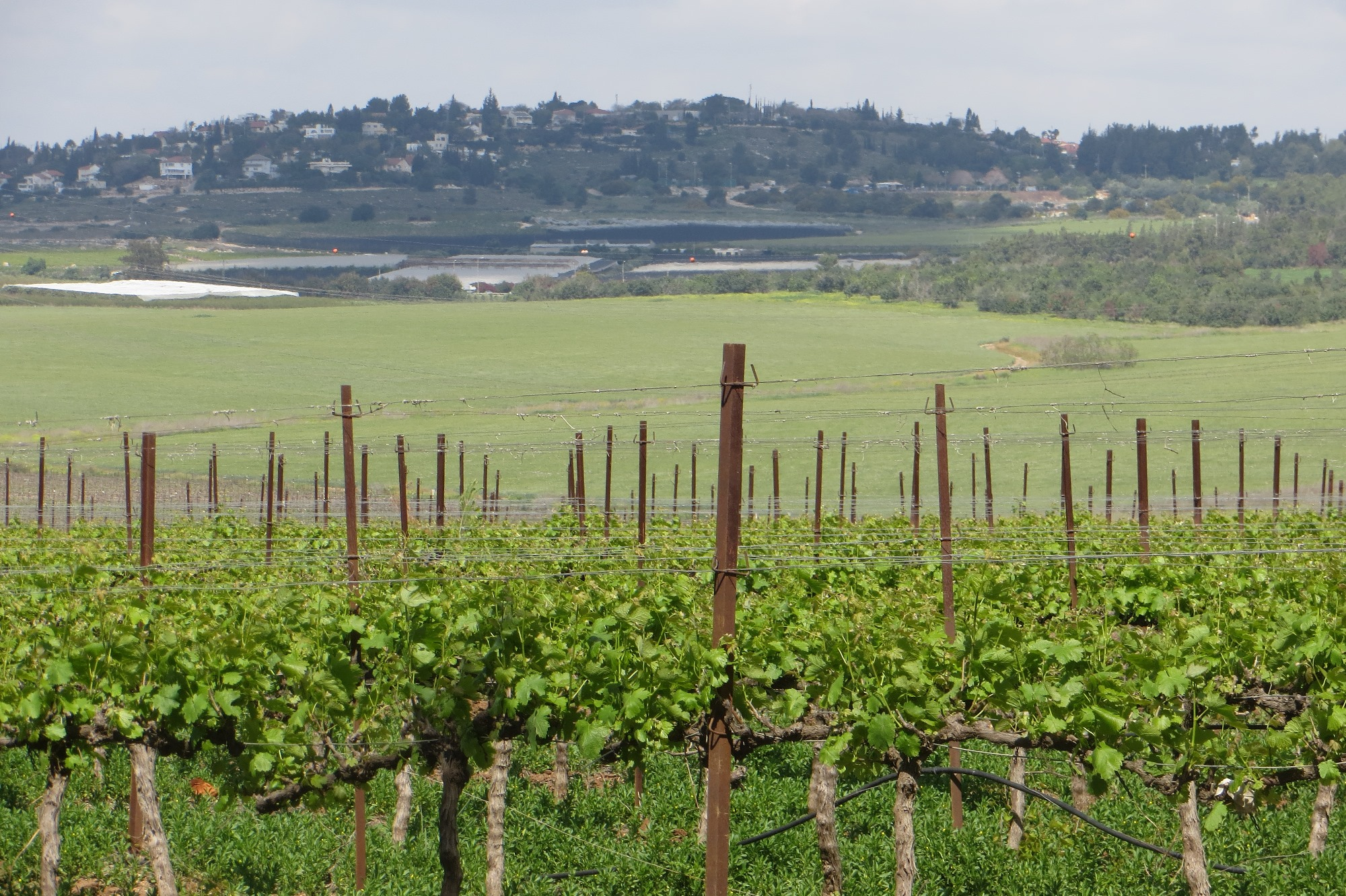 Settlements in Israel